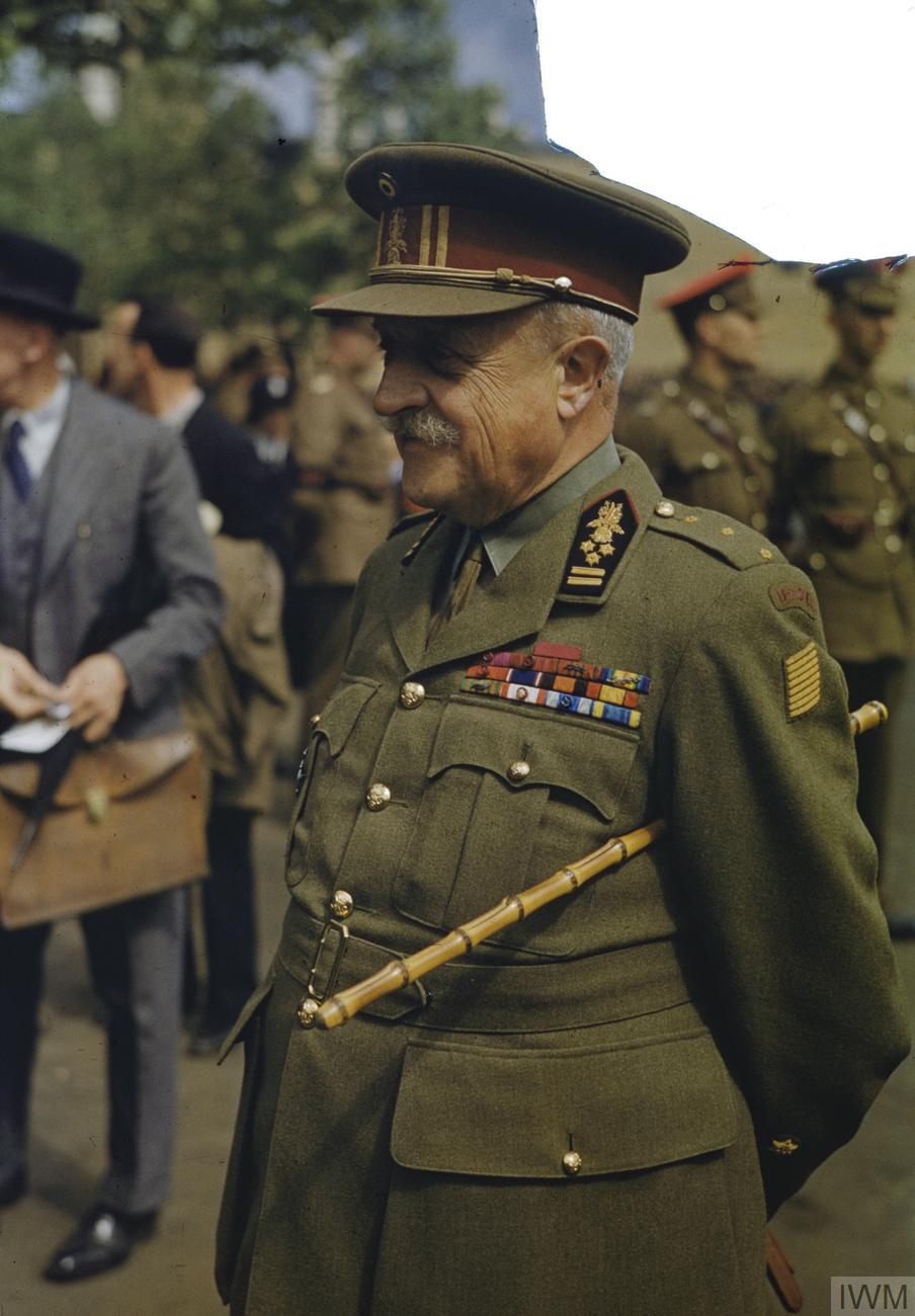 United Nations Day Parade, London, 14 June 1943 A general of the Belgian Army in Horse Guards Parade.